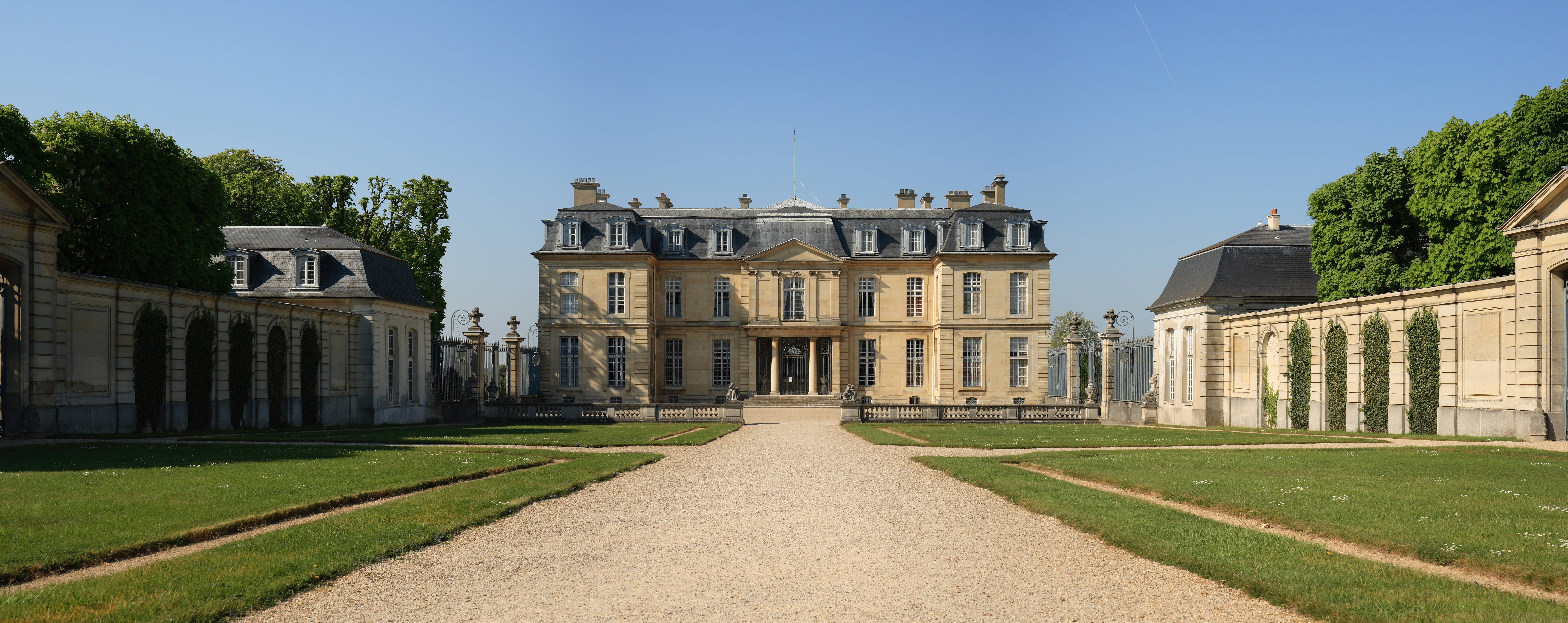 Castle of Champs-sur-Marne, Champs-sur-Marne, in the department of Seine-et-Marne, France.